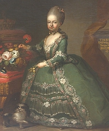 Archduchess Maria Theresa of Austria (1762–1770)